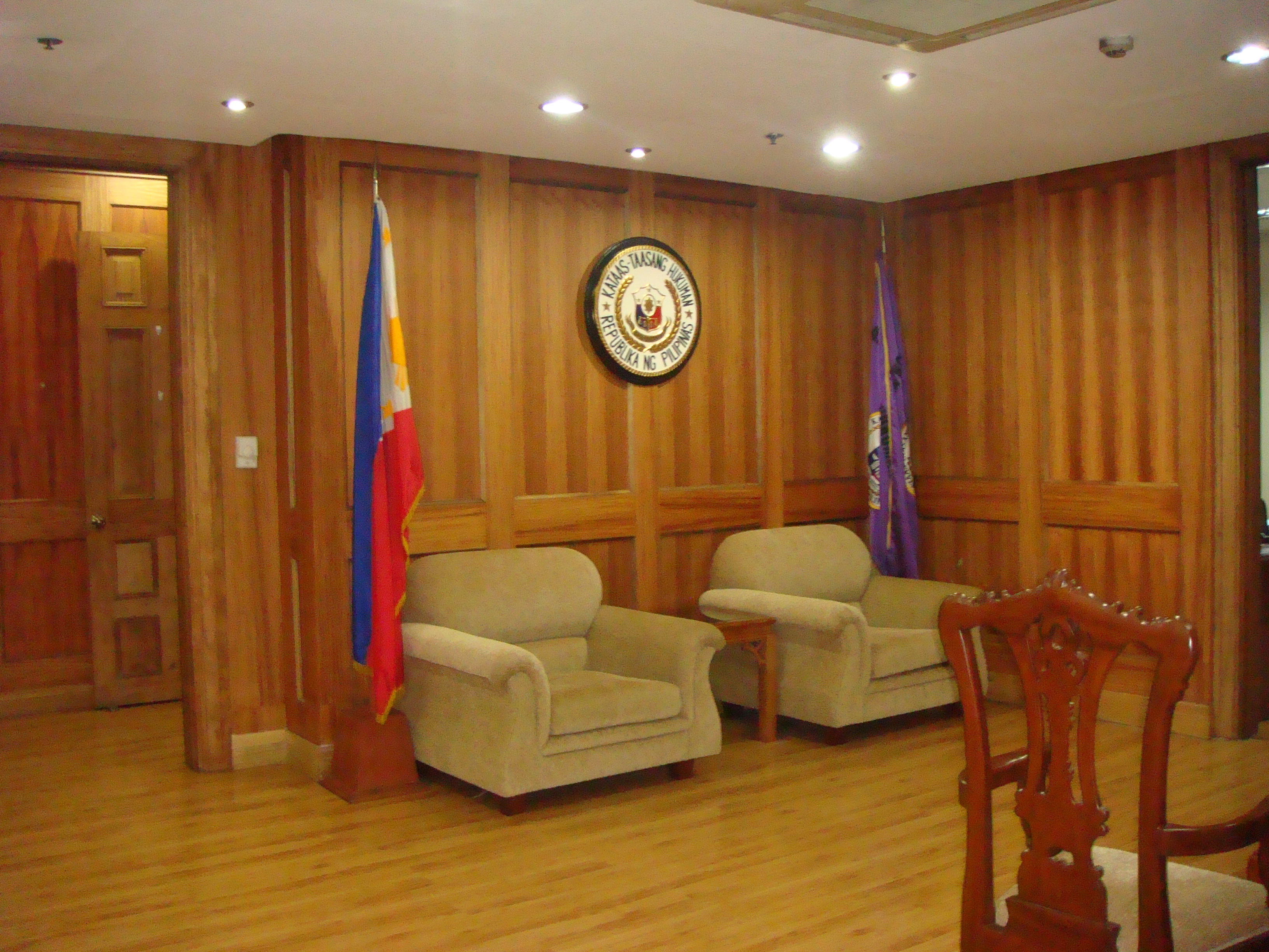 Receiving Office of the Judicial Chambers of the Philippines Chief Justice